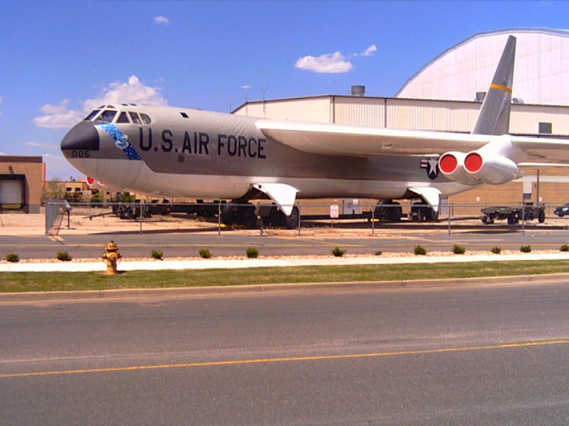 Updated photo of Balls 5. Taken 10 May 07 by Lance Barber.